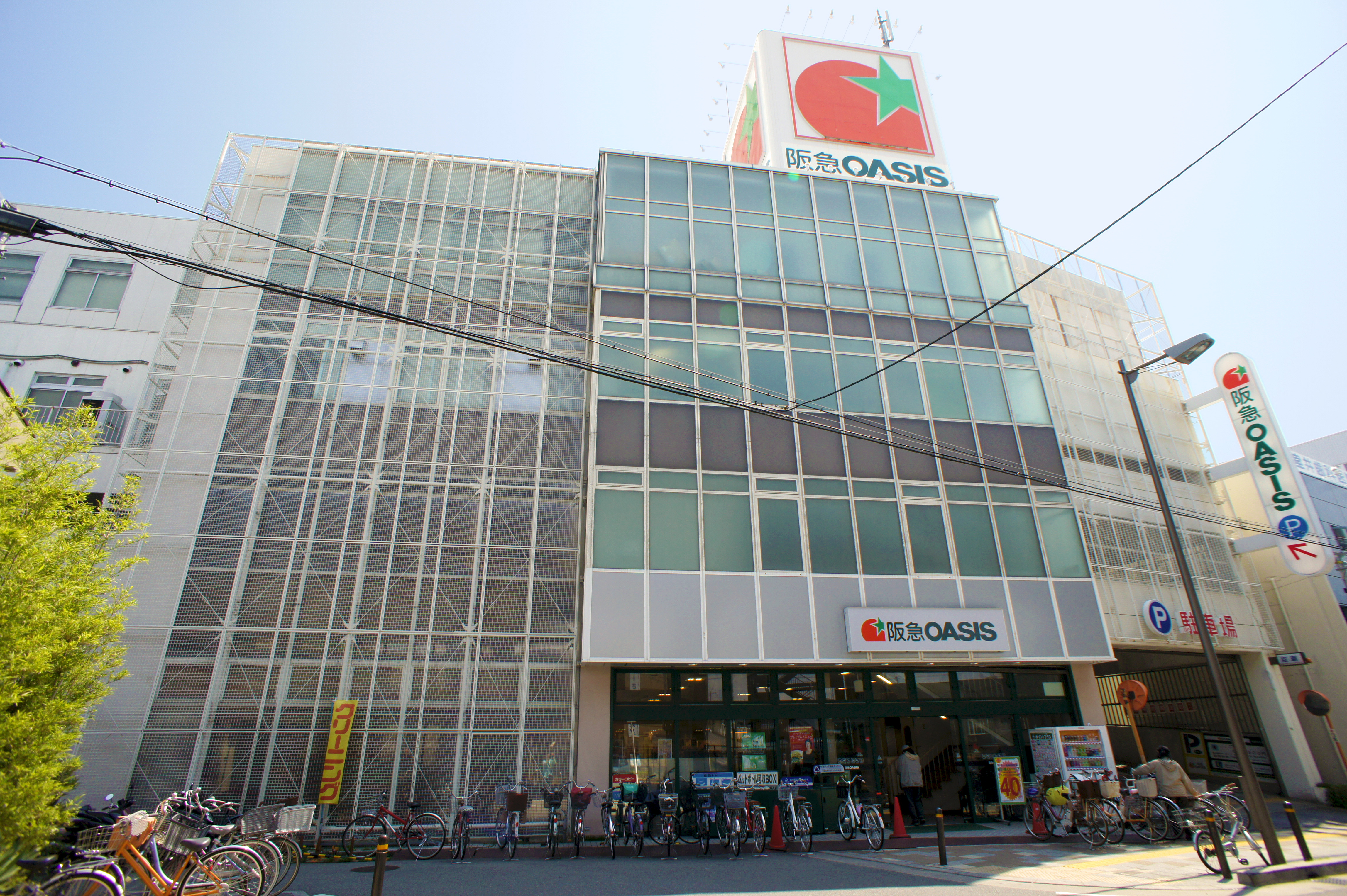 Hanshoku Headquarters Building, 2-2-3 Okakaminocho, Toyonaka-City Osaka Japan.